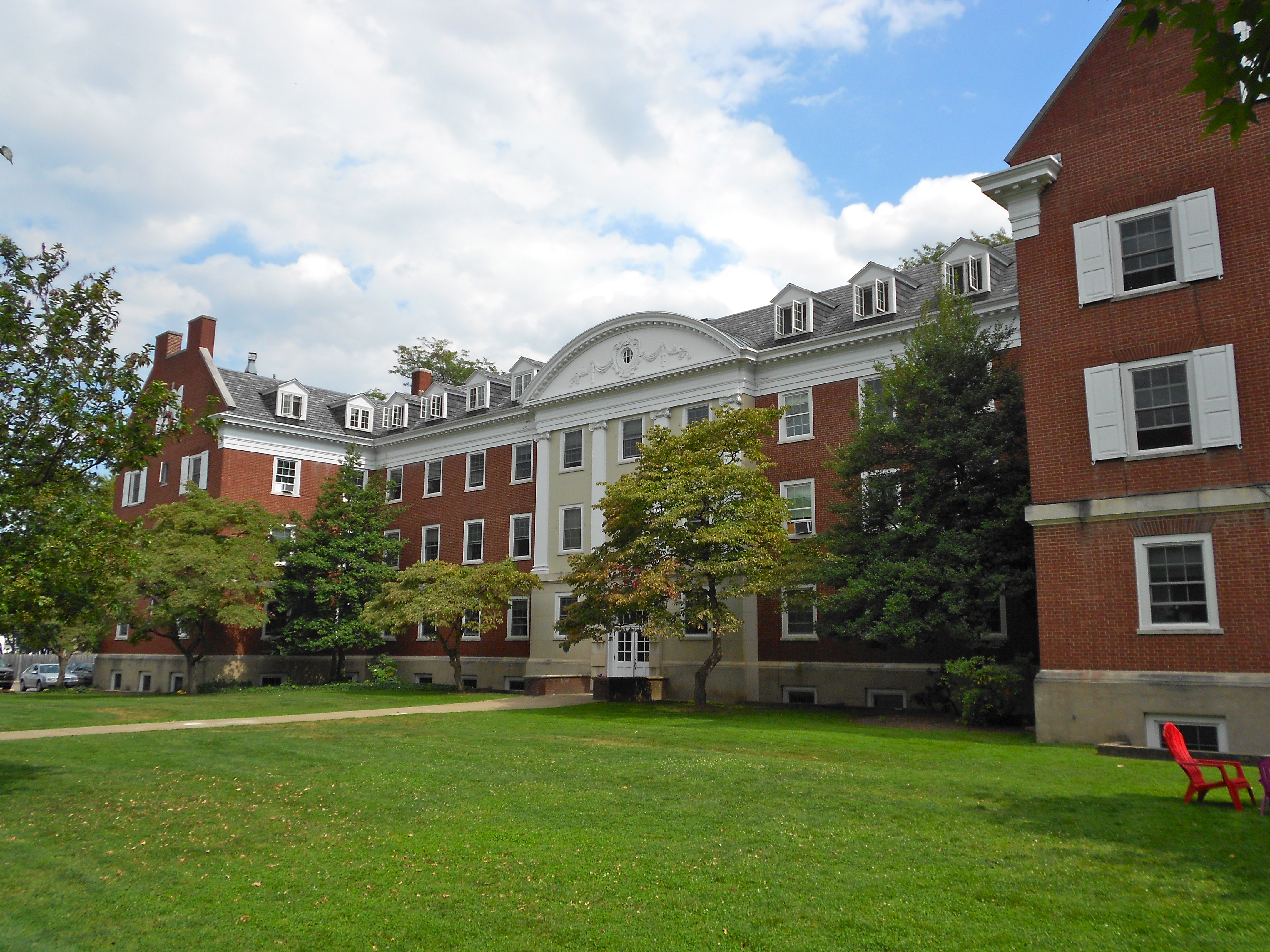 Carpenter Hall, Wyoming Seminary, on the NRHP since August 6, 1979, on Sprague Avenue, Kingston, Luzerne County, Pennsylvania